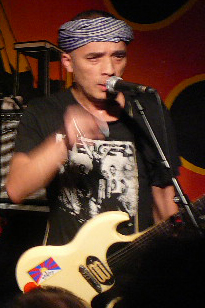 picture from Tai Luc singer of french punk band La Souris Déglinguée live at the Secret Place in Saint-Jean-de-Vedas